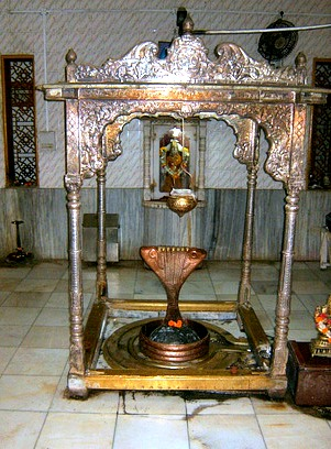 Walkeshwar mandir, south Mumbai